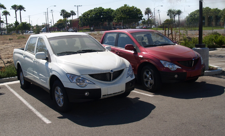 Phoenix Sport Utility Trucks (SUTs). Photo by Bill Dale on 6-27-2007 taken in Ontario, California.